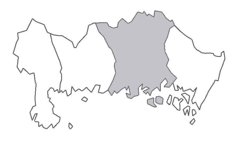 Map describing the location of Medelstad Hundred in Blekinge county, Sweden.